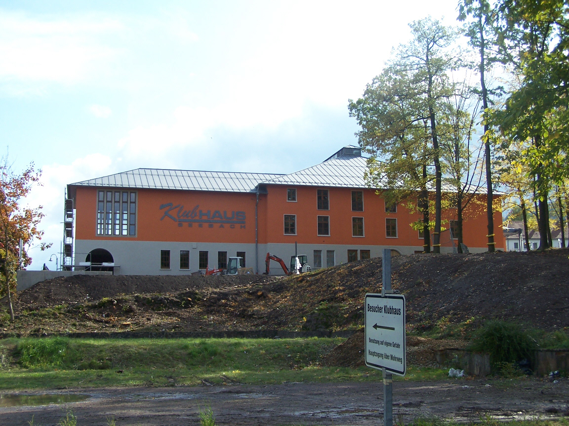 The village comunity and clubhouse in Seebach (2008 - under construction).